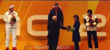 Speed skating at the 2006 Winter Olympics, Medal ceremony of Men's 500 metres competition: 1st place: Joey Cheek, USA (middle), 2nd place: Dmitry Dorofeyev, RUS (left), 3rd place: Lee Kang-Seok, KOR (right)